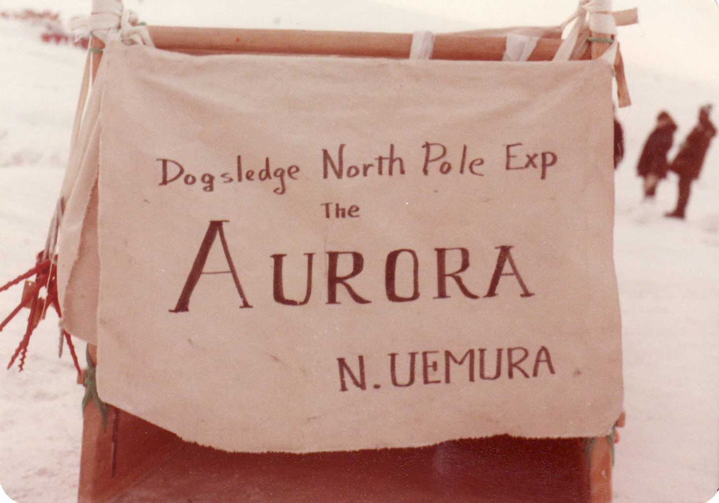 Photo of the sled used by Naomi Uemure during his solo trek to the Pole in June 1978. I met Mr. Uemura and tea and Seal stew with him before he started his trek from Alert, Nunavut, Canada.